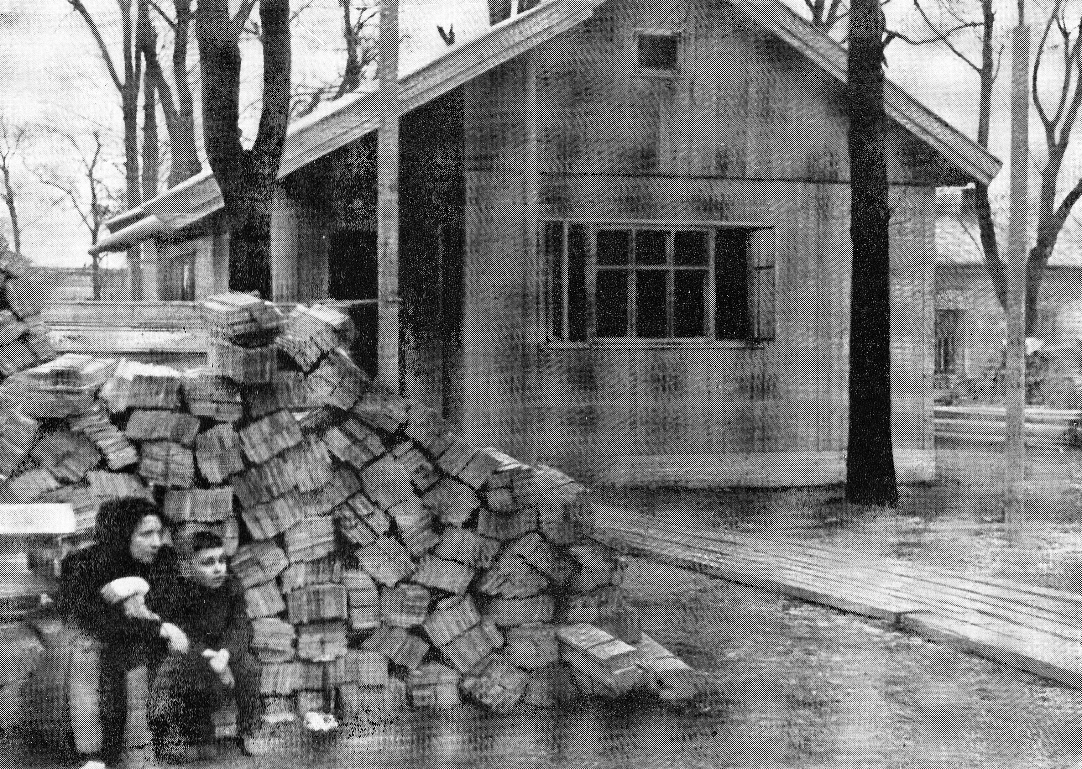 Construction of Finnish wooden houses in Warsaw